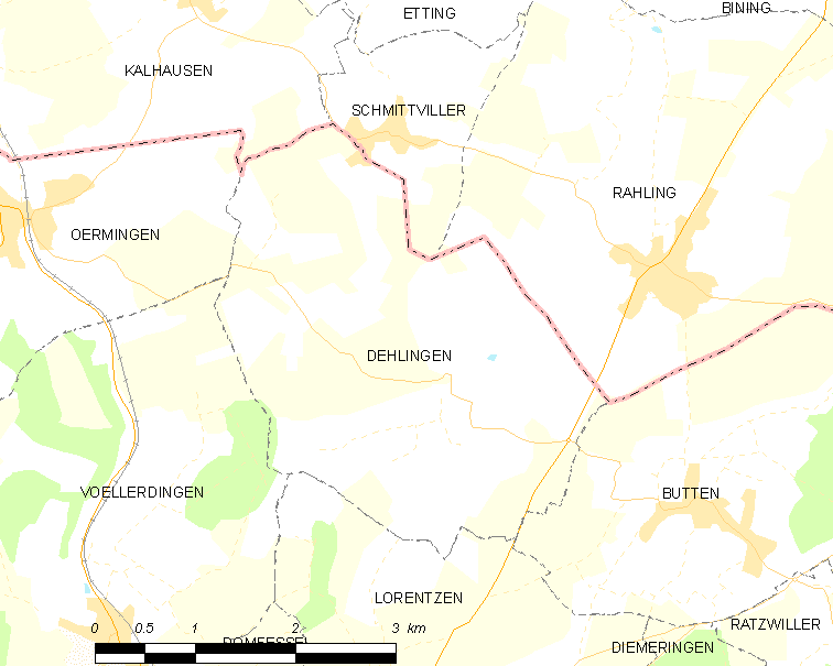 Map of French municipality